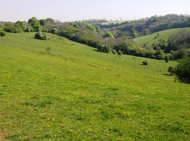 Path on Danks Down North of Ford a footpath (part of the Macmillan Way) leaves the Castle Combe Road to follow the right flank of Danks Down towards Long Dean. The path runs along the left-hand side of this picture, with the By Brook in the valley to the right and Long Dean hamlet in the wooded area in the middle distance.